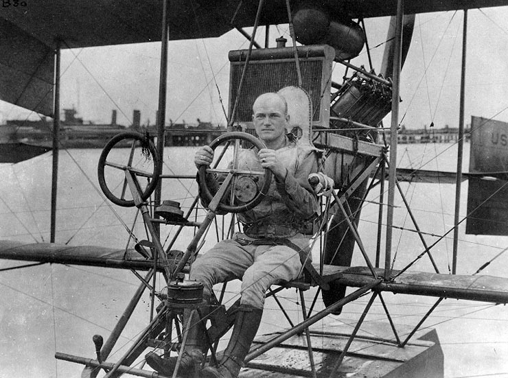 U.S. Navy Lieutenant (junior grade) Marc Andrew Mitscher in Curtiss A-type seaplane at Naval Air Station Pensacola, Florida (USA), circa in 1916. After completing flight school in that year, he was designated Naval Aviator Number 33.